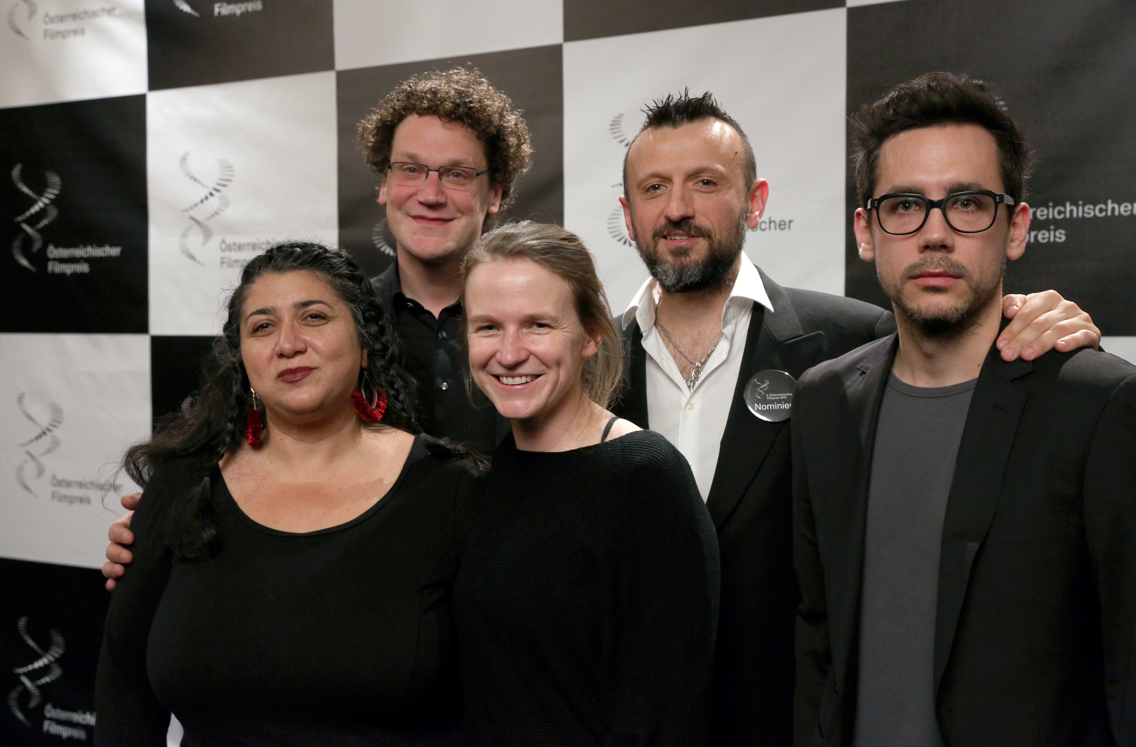 Sudabeh Mortezai, Oliver Neumann, Sabine Moser, Atanas Tcholakov and Klemens Hufnagl at the Austrian Film Awards 2015 at Rathaus, Vienna,Austria.